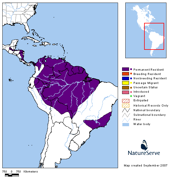 Geographic range of the Great Potoo